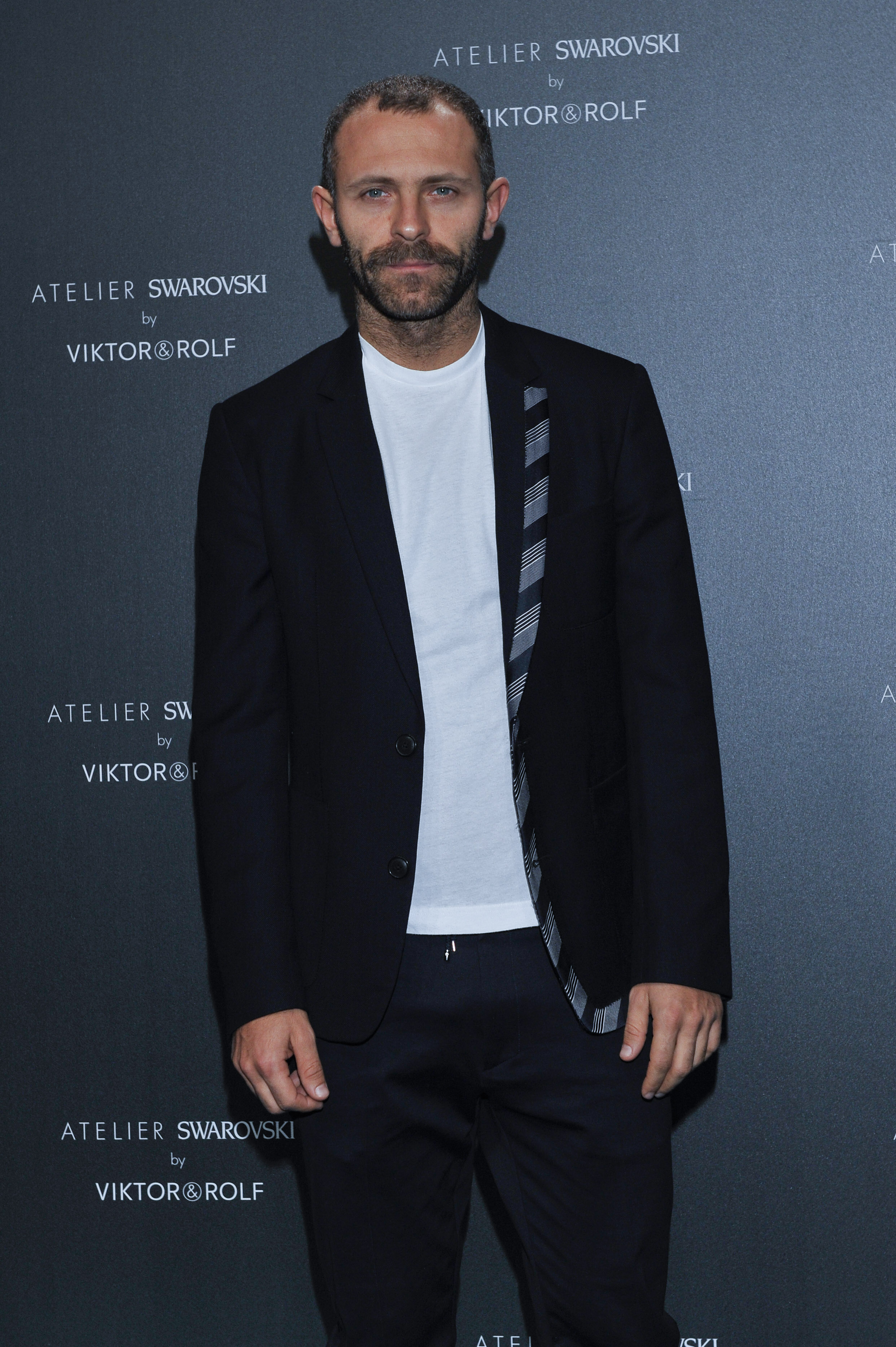 Stefano Rosso at Viktor&Rolf dinner, Cannes Film Festival 2014